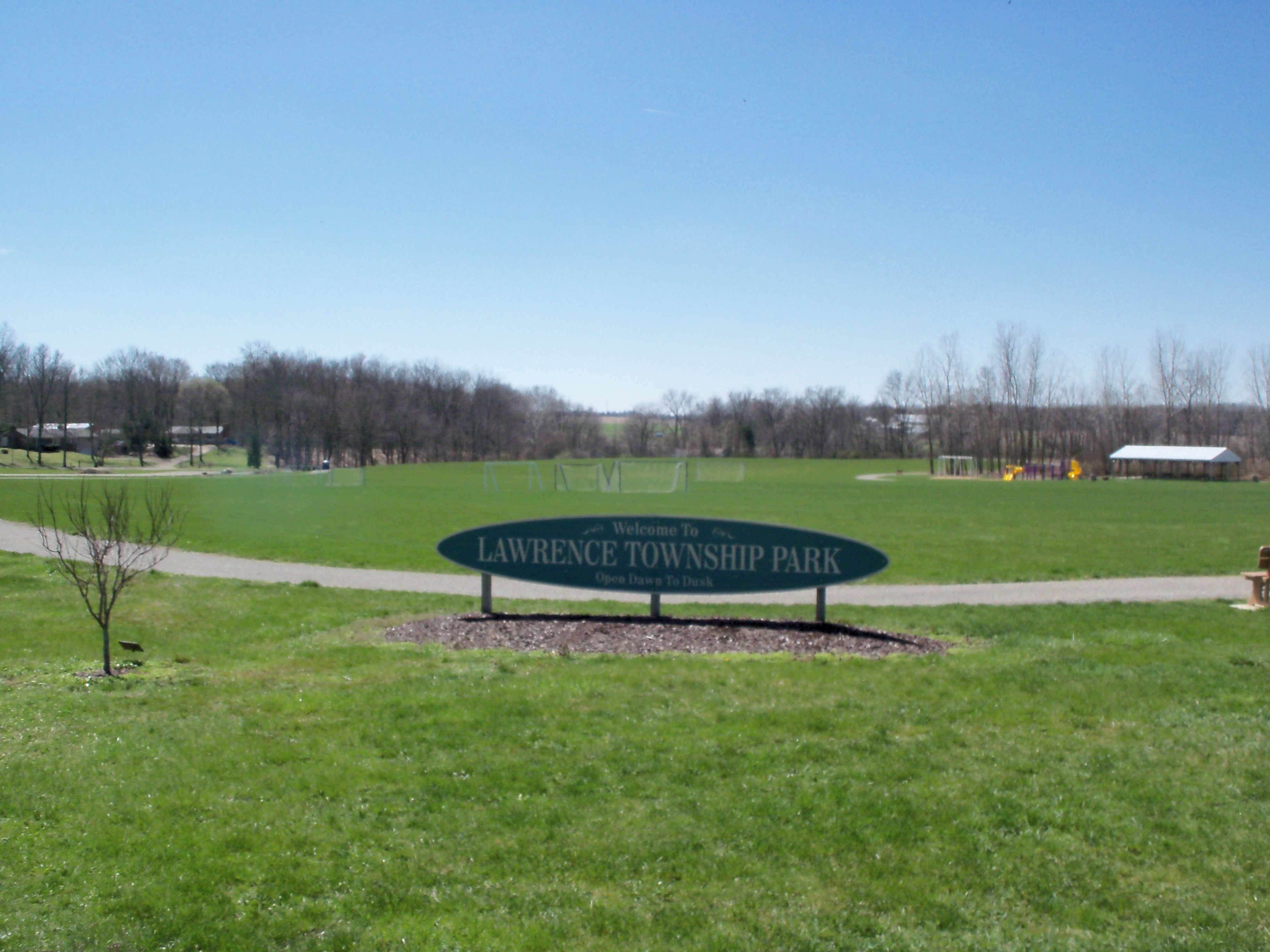 Ball fields in Lawrence Township, Stark County, Ohio